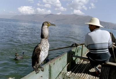 Cormorant fishing on Eir lake near Dali, Yunan, China